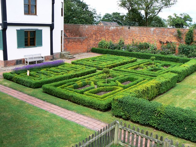 Boscobel House on the Shropshire/Staffordshire border, near Wolverhampton, England.